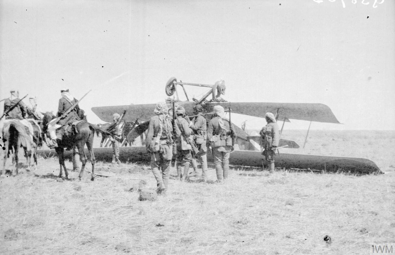 T E Lawrence and the Arab Revolt 1916 - 1918 Lieutenant Junor's BE.12 biplane after making a forced landing near Mezerib.